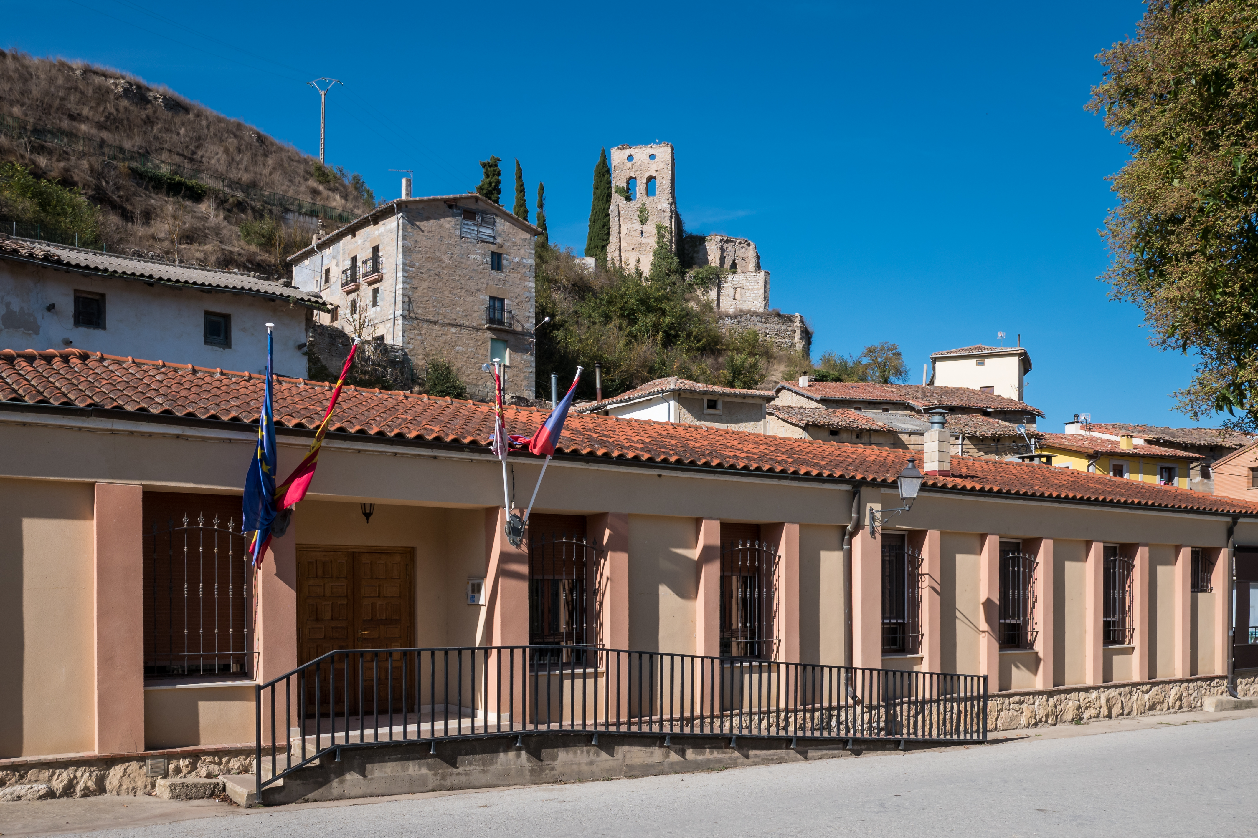 Valluércanes. Burgos, Castilla-León, Spain